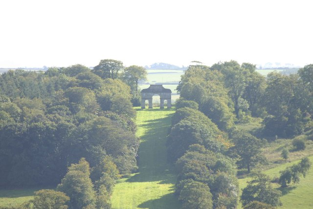 The Triumphal Arch at Castle Hill House, Filleigh